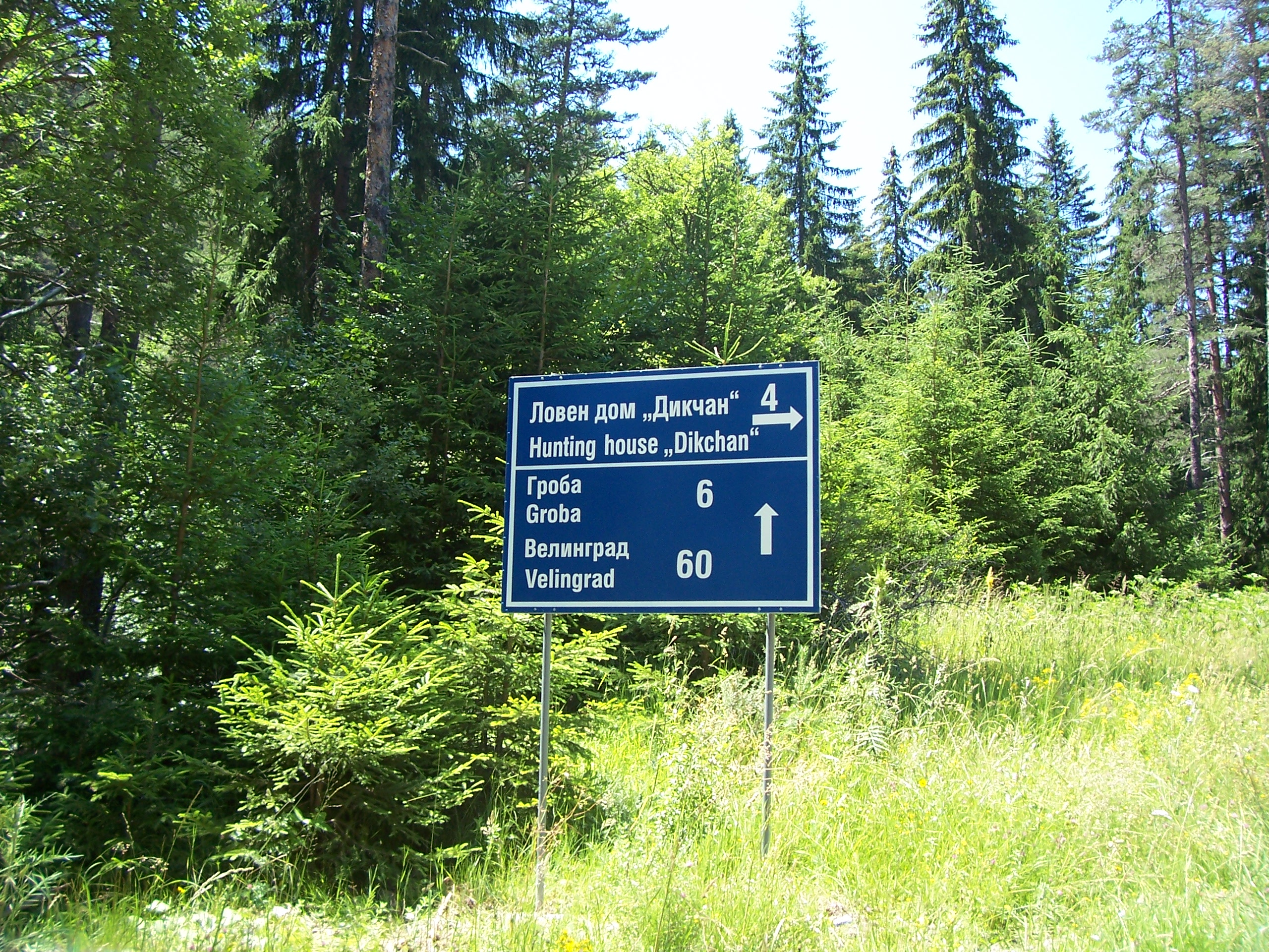 Road sign for the Dikchan Forestry Enterprise.